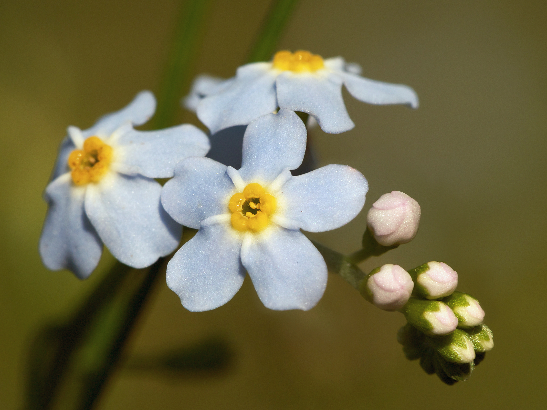 Water Forget-me-not (Myosotis scorpioides), Chemnitz, Germany